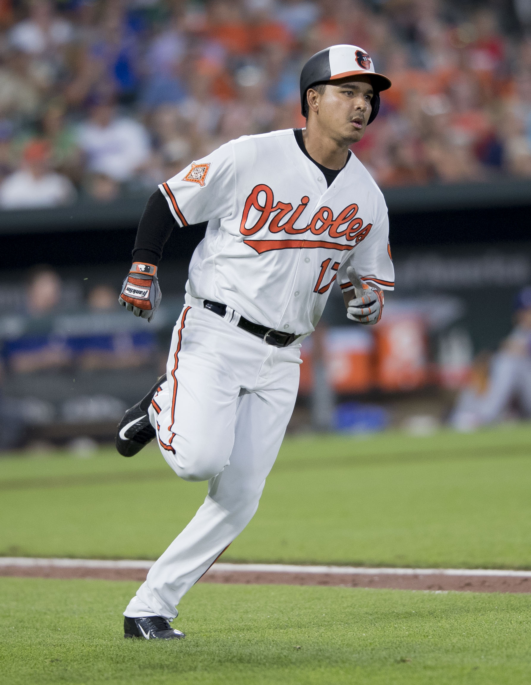 Rangers at Orioles 7/18/17